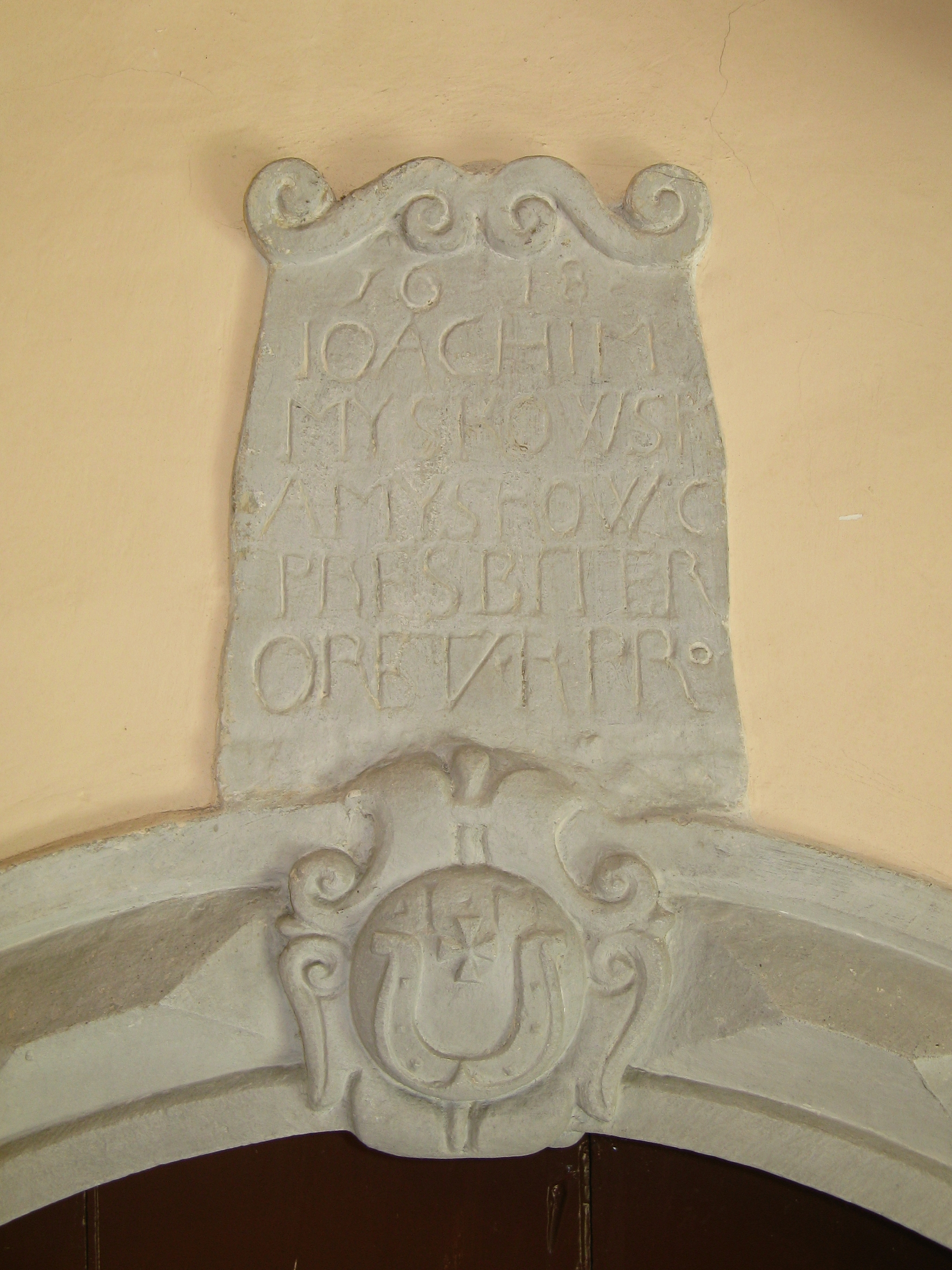 The stone plaque mentioning rector Joachim Myszkowski from Myszkowice, with date '1618' and his coat of arms named Jastrzębiec above portal in Saints Martin and Dorothy church in Wojkowice Kościelne, Poland.